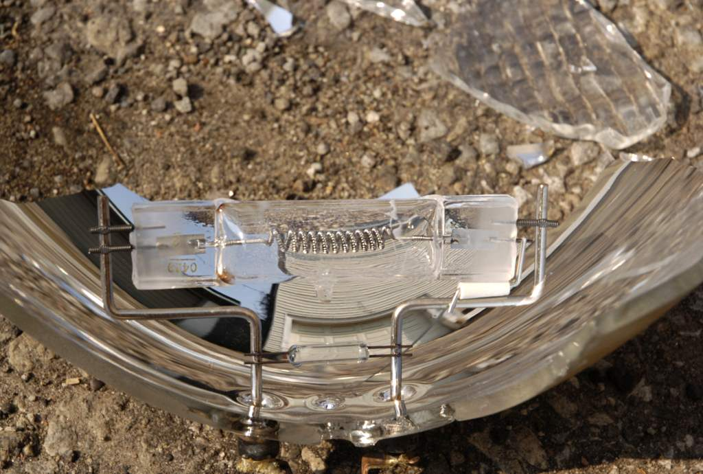 PAR64 (8inch) sealed beam I took this picture in our parking lot after I smashed open a defective sealed beam. I license this picture for use in Wikipedia.